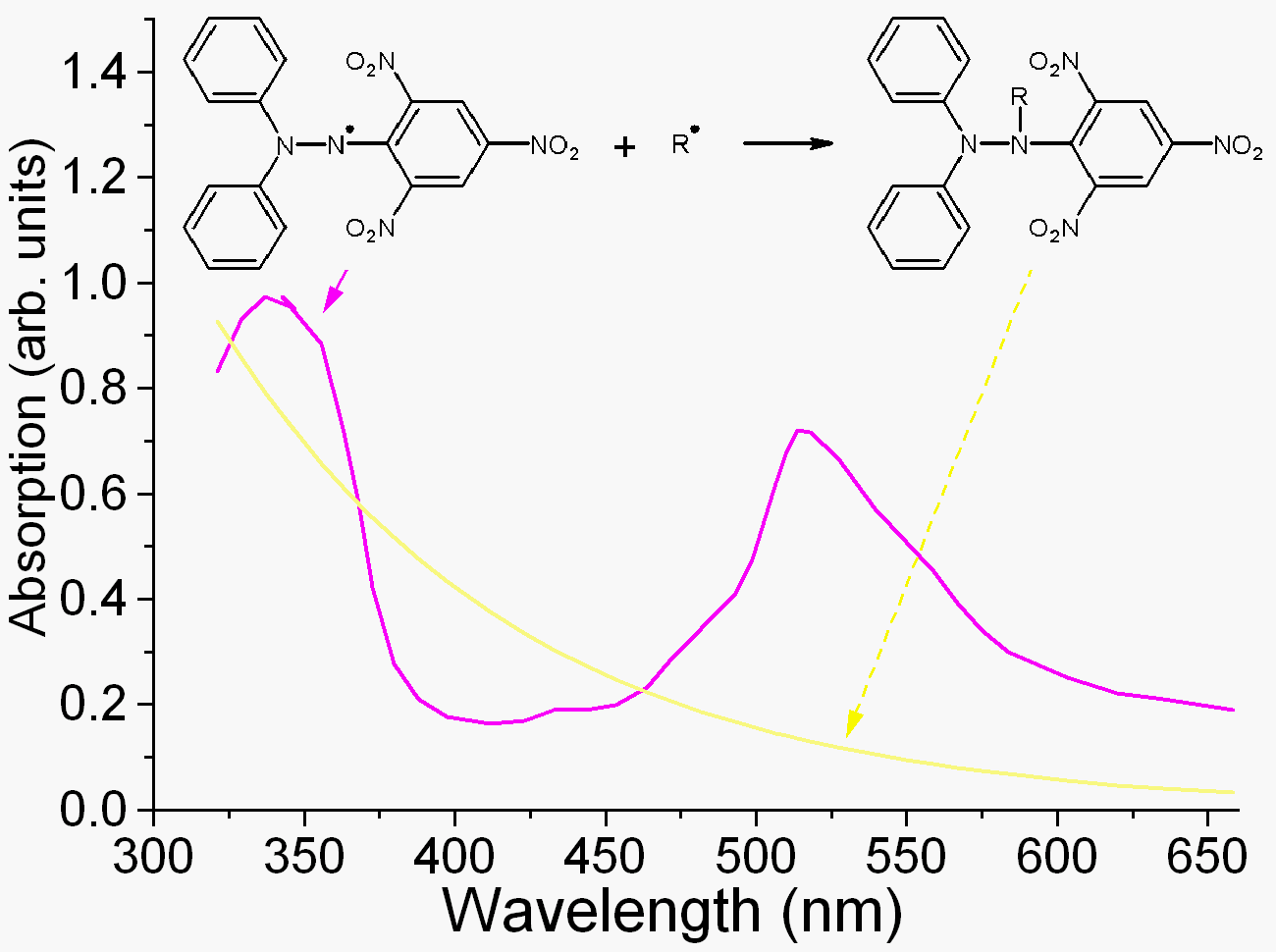 Change in absorption spectrum (from magenta to yellow) upon reaction of DPPH with a radical. After (2002). "URIC ACID REACTION WITH DPPH RADICALS AT THE MICELLAR INTERFACE". Boletín de la Sociedad Chilena de Química 47 (2): 145-149.